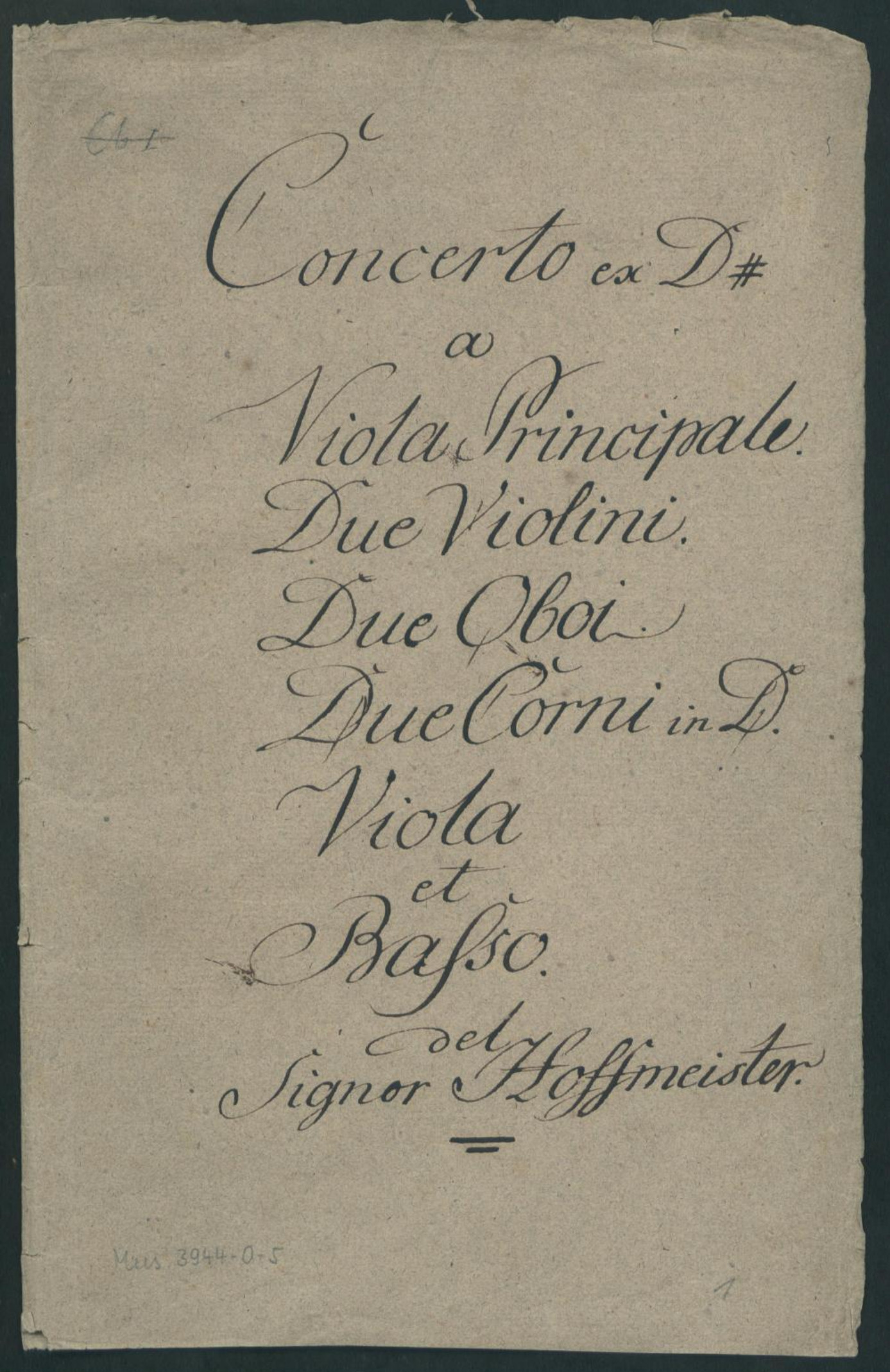 First page of the manuscript parts set of Hoffmeister's viola concerto in D.